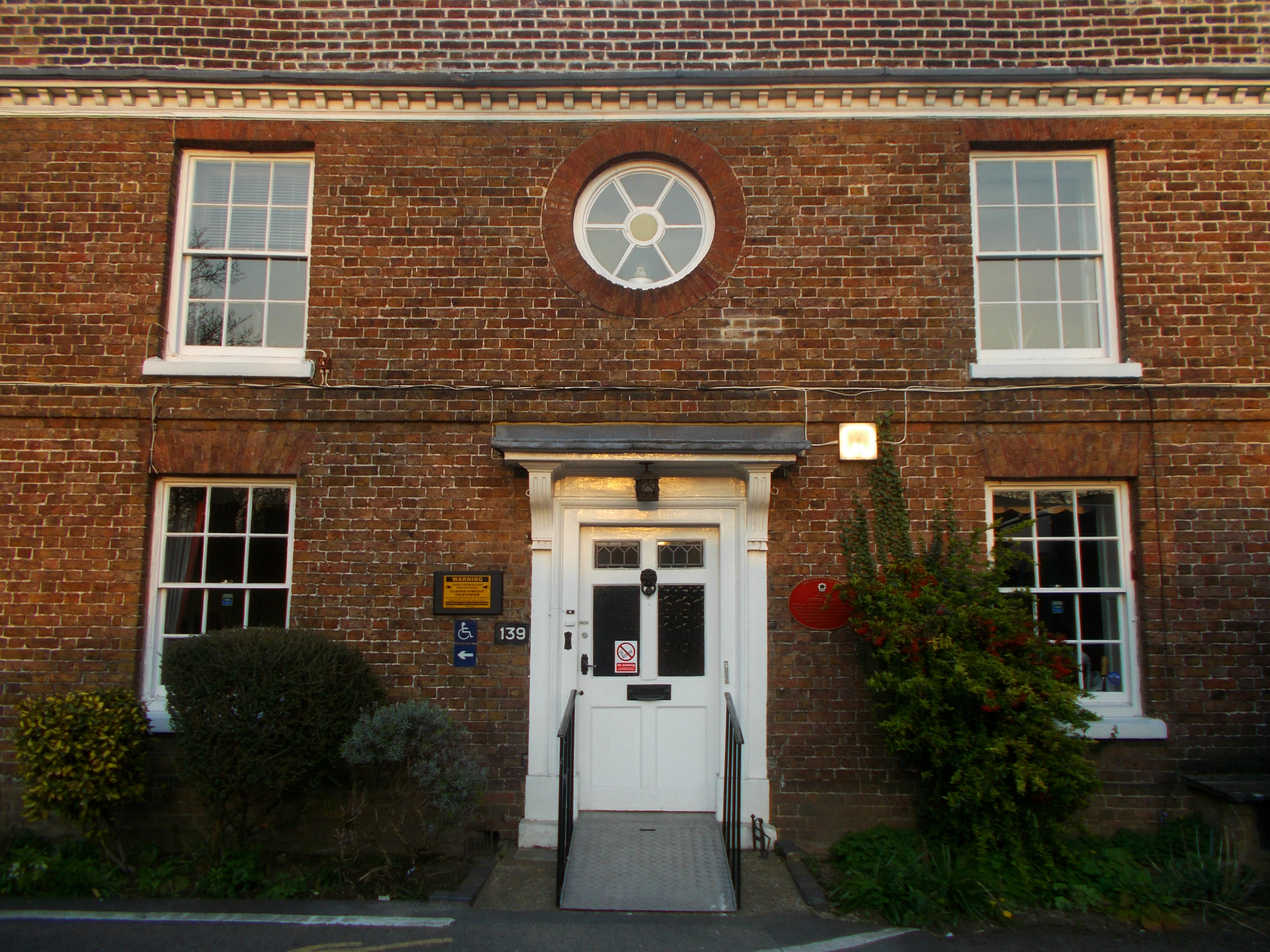 The Georgian "Sutton Lodge" in Brighton Rd is one of he oldest buildings in Sutton